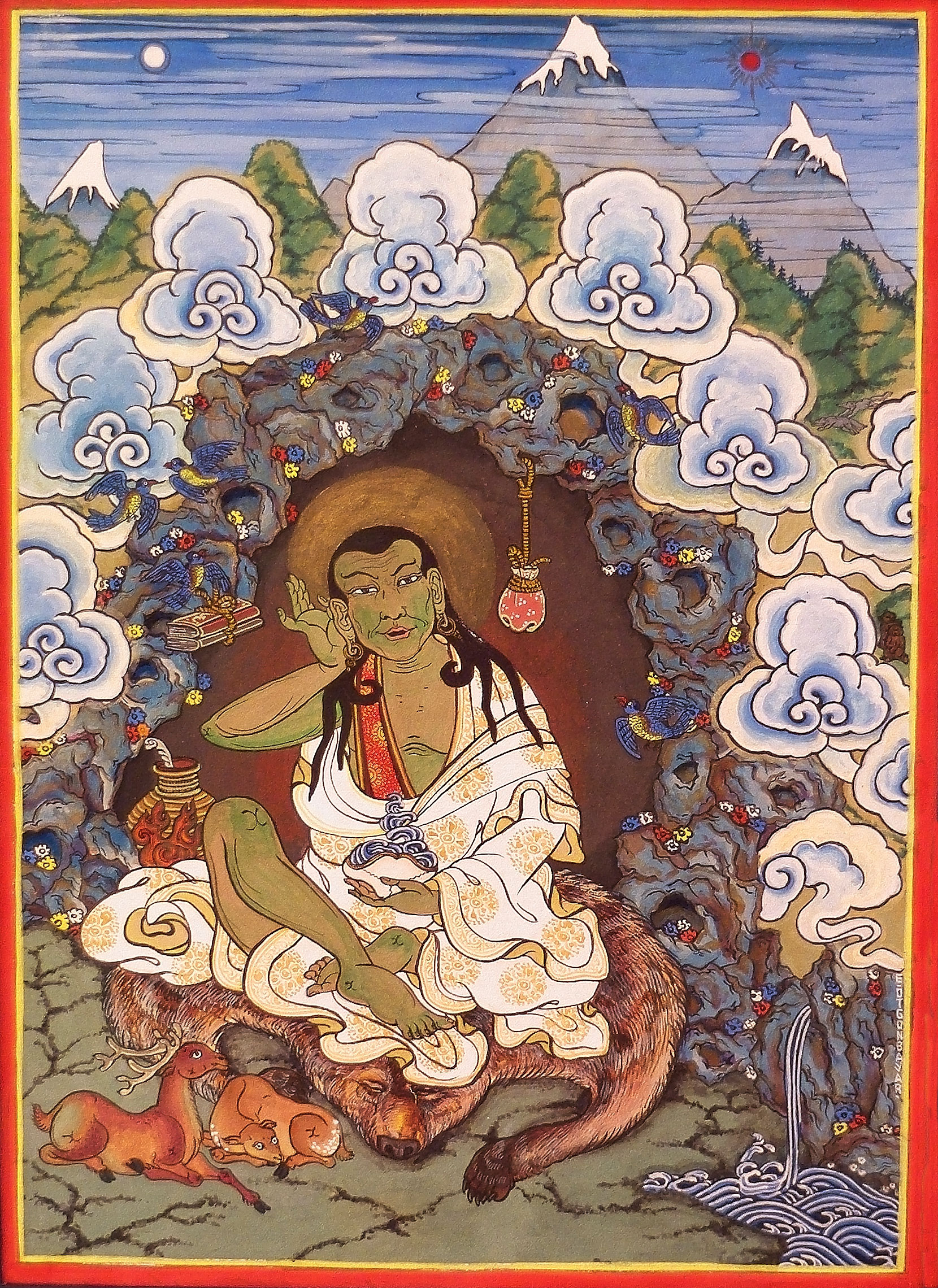 Milarepa (thangka painting) Tempera on cotton, 21x30 cm, Year 2008, Otgonbayar Ershuu